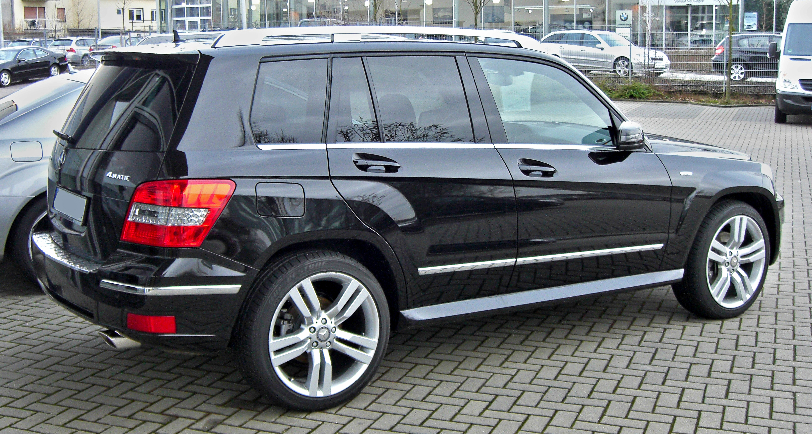 Mercedes GLK „Edition 1“